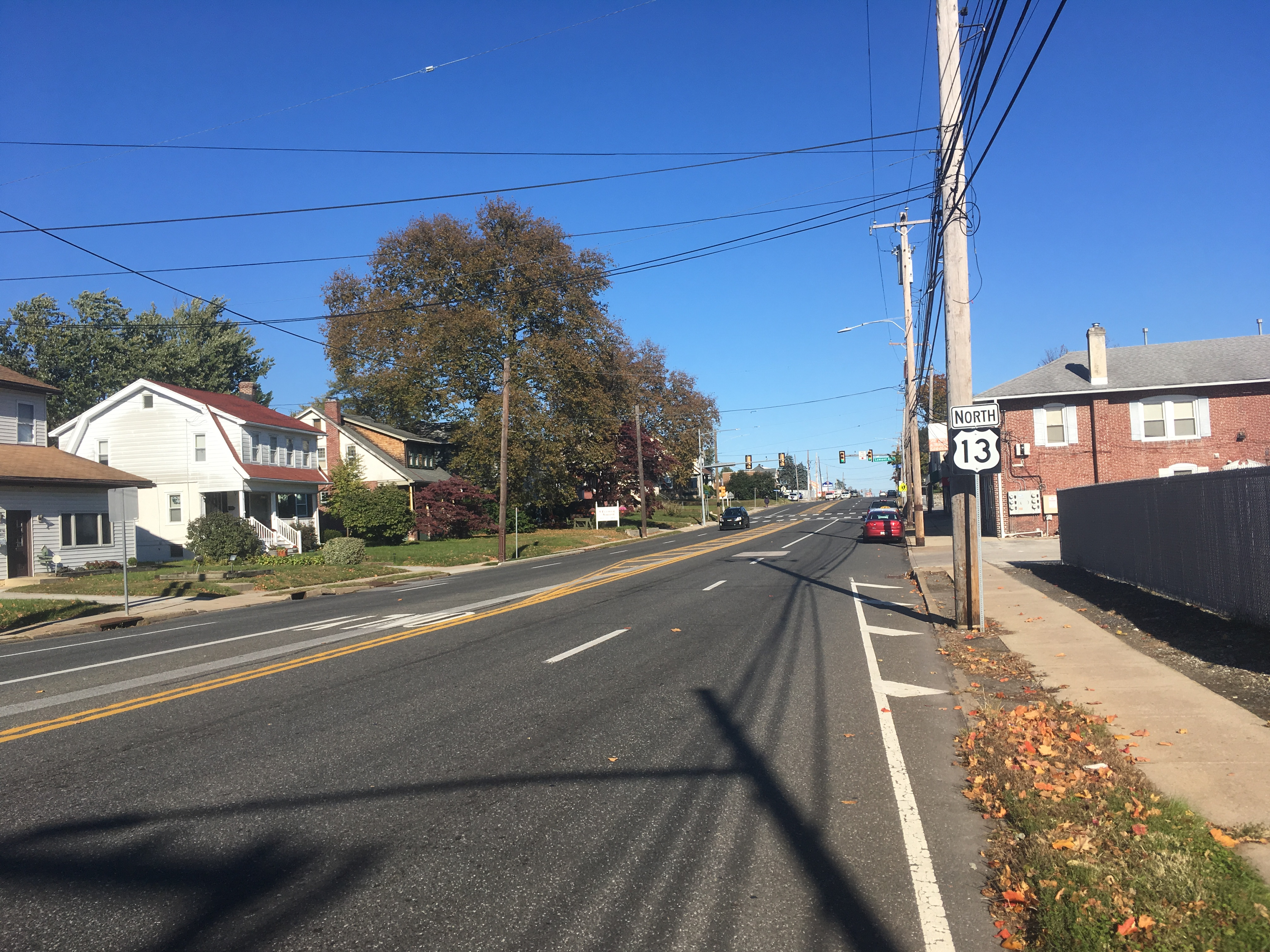 Northbound U.S. Route 13 (Chester Pike) past the intersection with Ashland Avenue in Glenolden, Pennsylvania